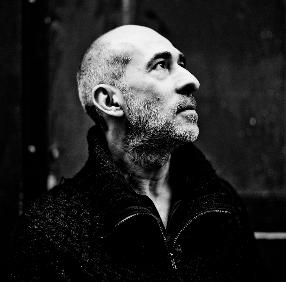 Lionel Belmondo by Yann Orhan